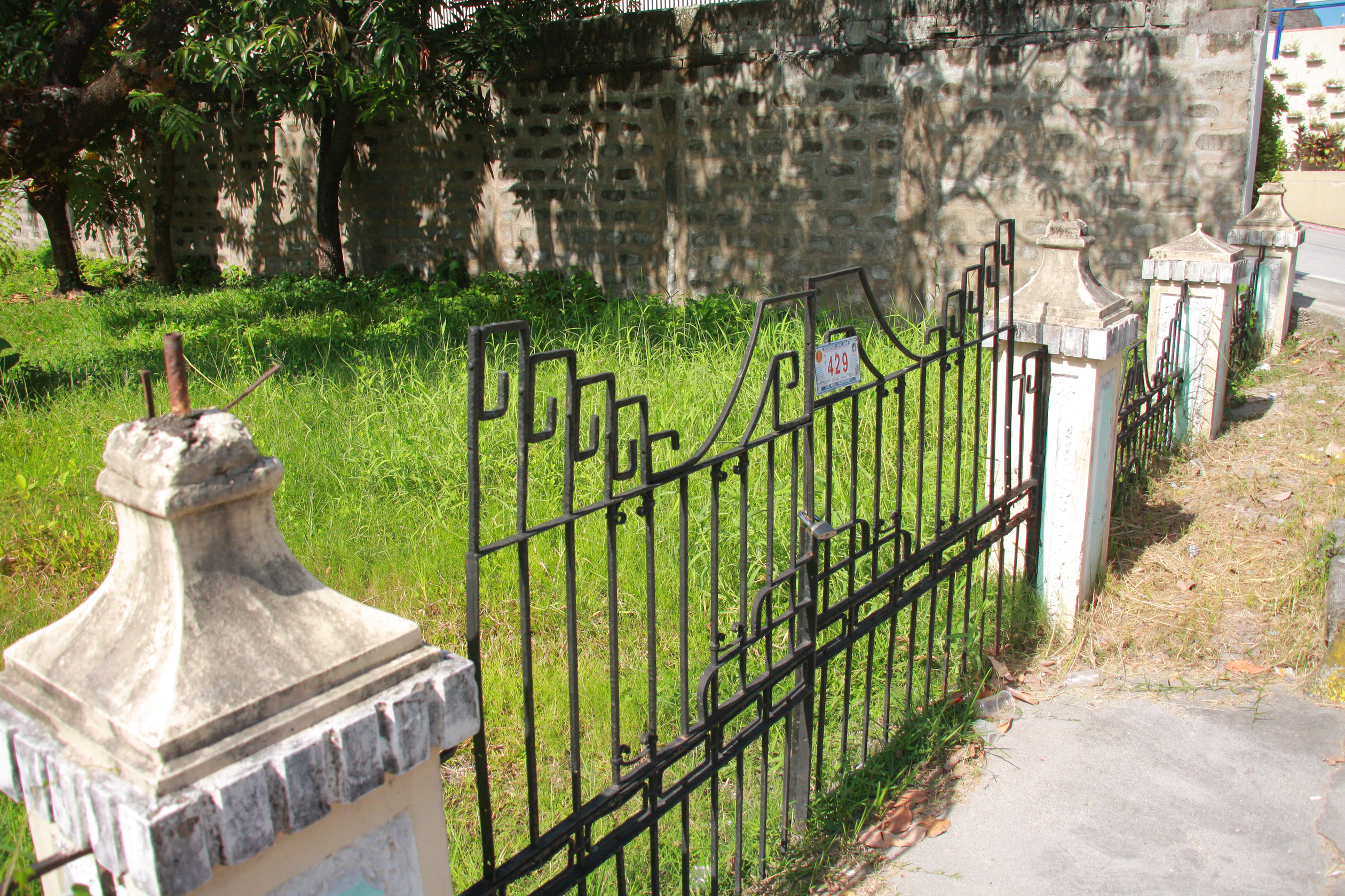 Gateway of Guanzon Ancestral House